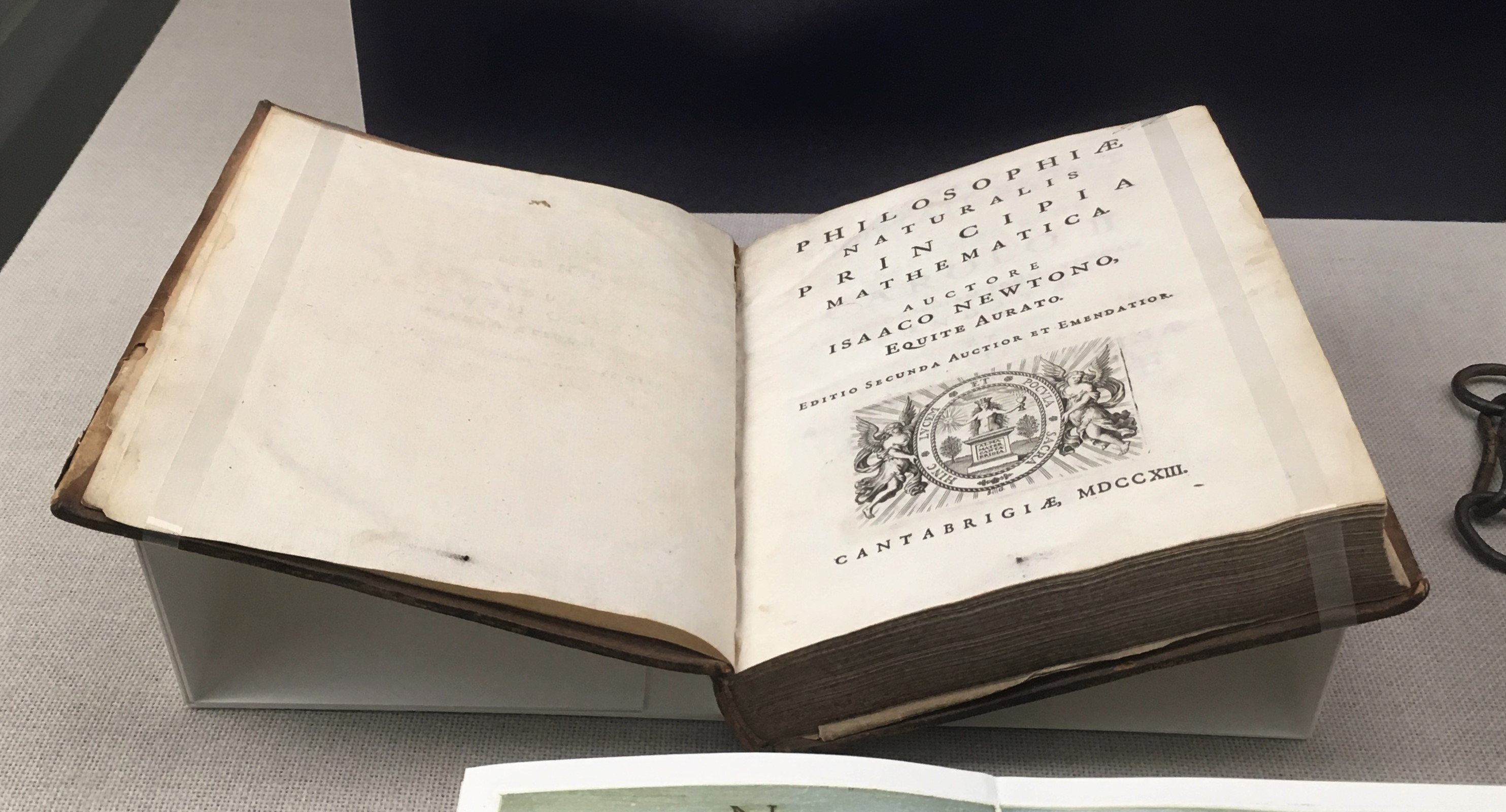 Philosophiæ Naturalis Principia Mathematica by Isaac Newton, 2nd edition, published 1713, opened to title page. (Displayed at Bobst Library of New York University.)